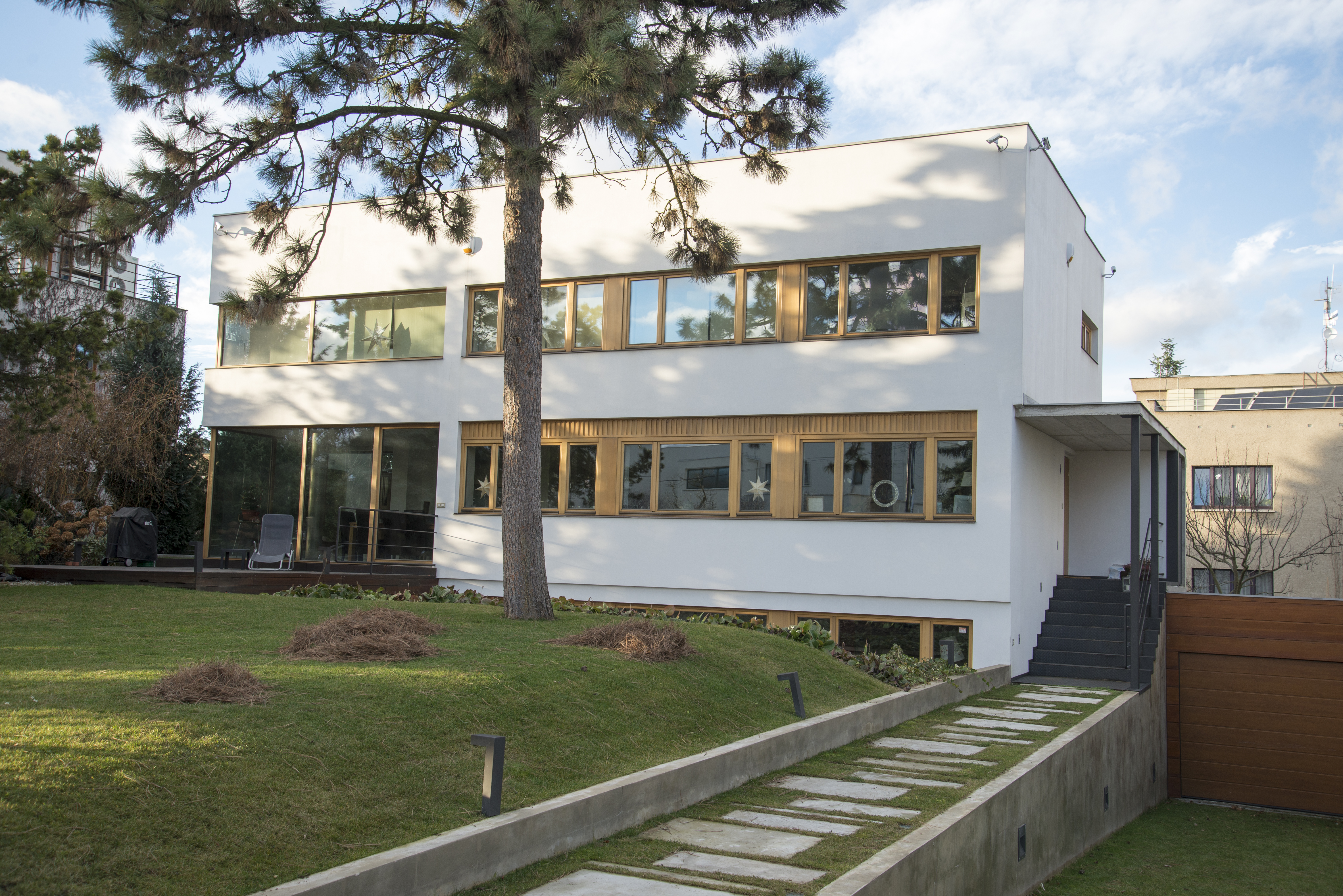 Osada Baba (Baba Functionalism colony in Prague) - House Zaorálek